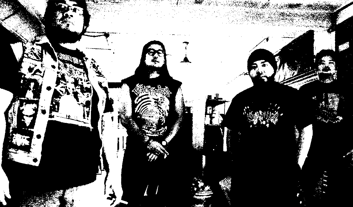 Negation 2015